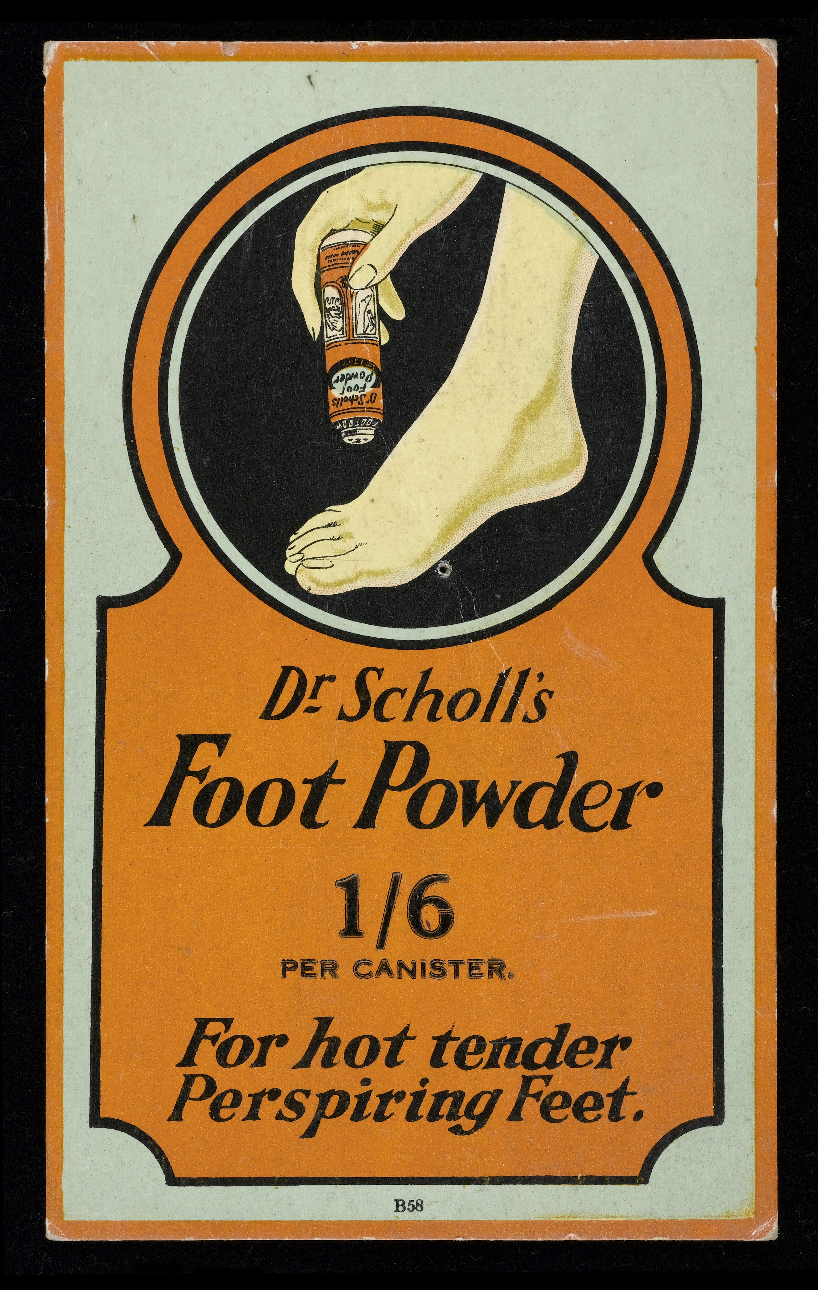 Advert for Dr Scholl's Foot Powder General Collections Keywords: Sweating; Product; Dr. Scholl's Foot Powder.; Advertisements; Feet; Advertisement; Foot; Smell